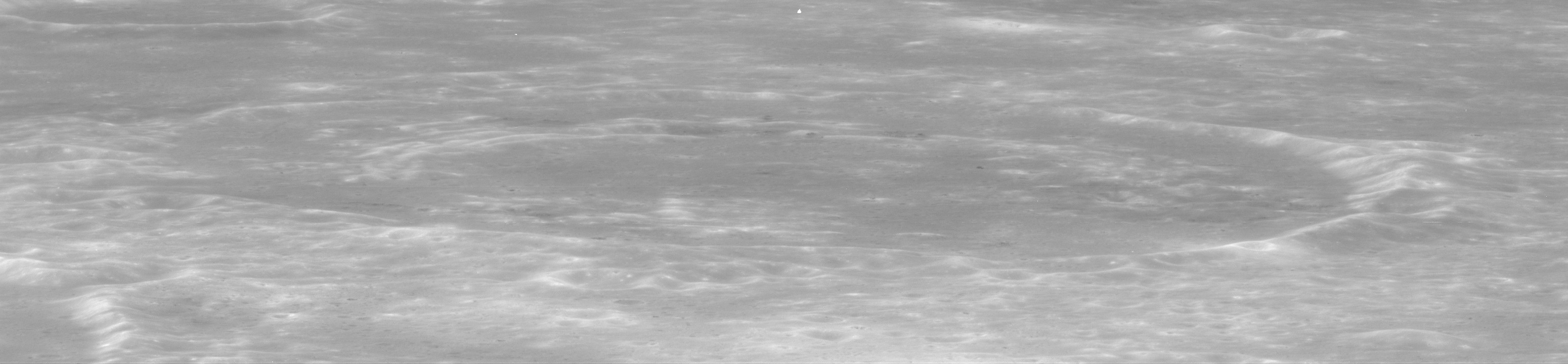 Oblique view of Runge crater, facing west, on the moon. Taken by Apollo 17 panoramic camera.